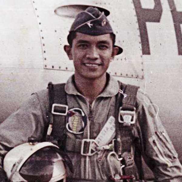 Captain Antonio M. Bautista, Fighter Pilot, Philippine Air Force. Photo taken 1964, at Basa Air Base, Pampanga, Philippines. Seen here wearing the logo of the 6th Tactical Fighter Squadron, 5th Fighter Wing.